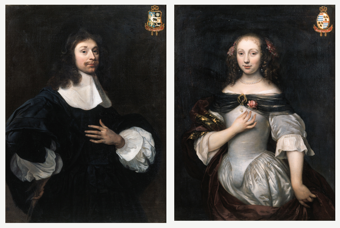 Joan Huydecoper wearing black costume, with lace shirt, holding a glove in his right hand Sophia Huydecoper wearing a grey décolleté silk dress, lace chemise and dark red gold embroidered wrap, with pearl and pink ribbons in her hair, holding a rose in her right hand